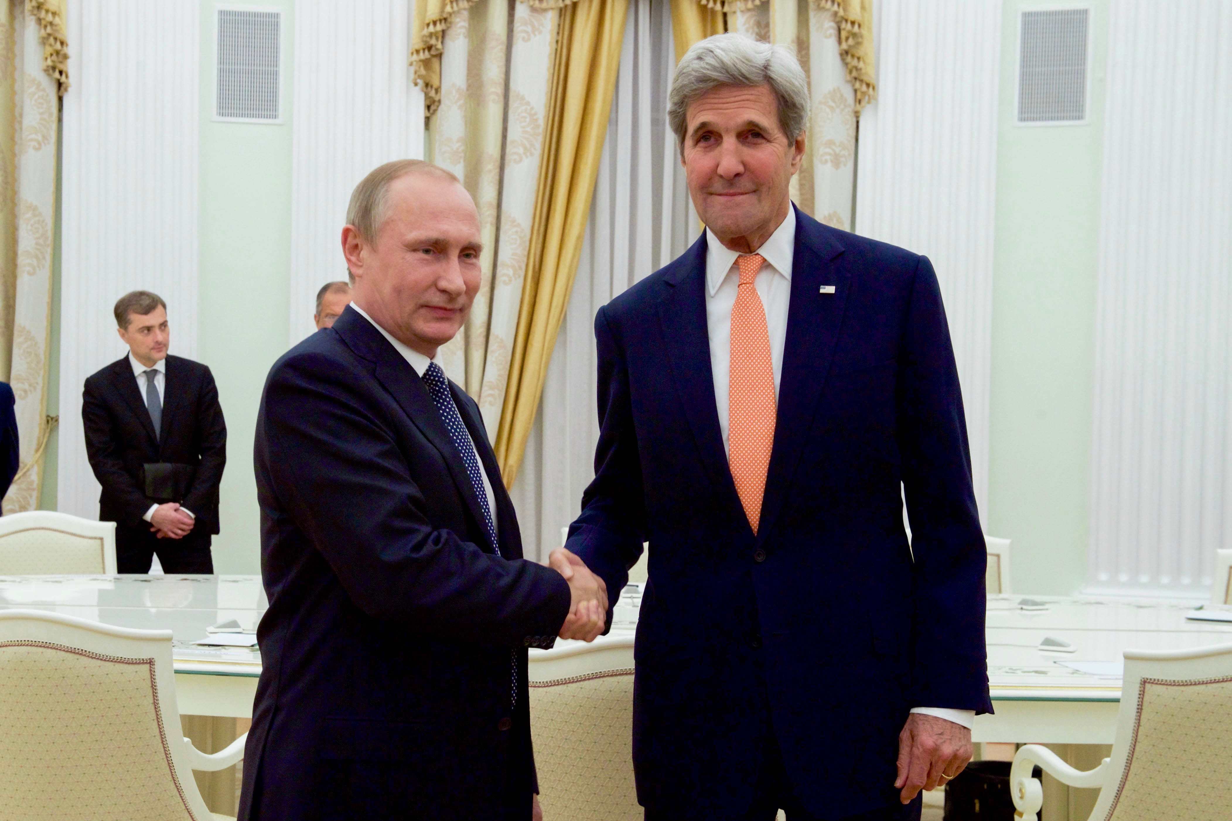 U.S. Secretary of State John Kerry shakes hands with Russian President Vladimir Putin in a meeting room at the Kremlin in Moscow, Russia, before a bilateral meeting on July 14, 2016. [State Department Photo/Public Domain]